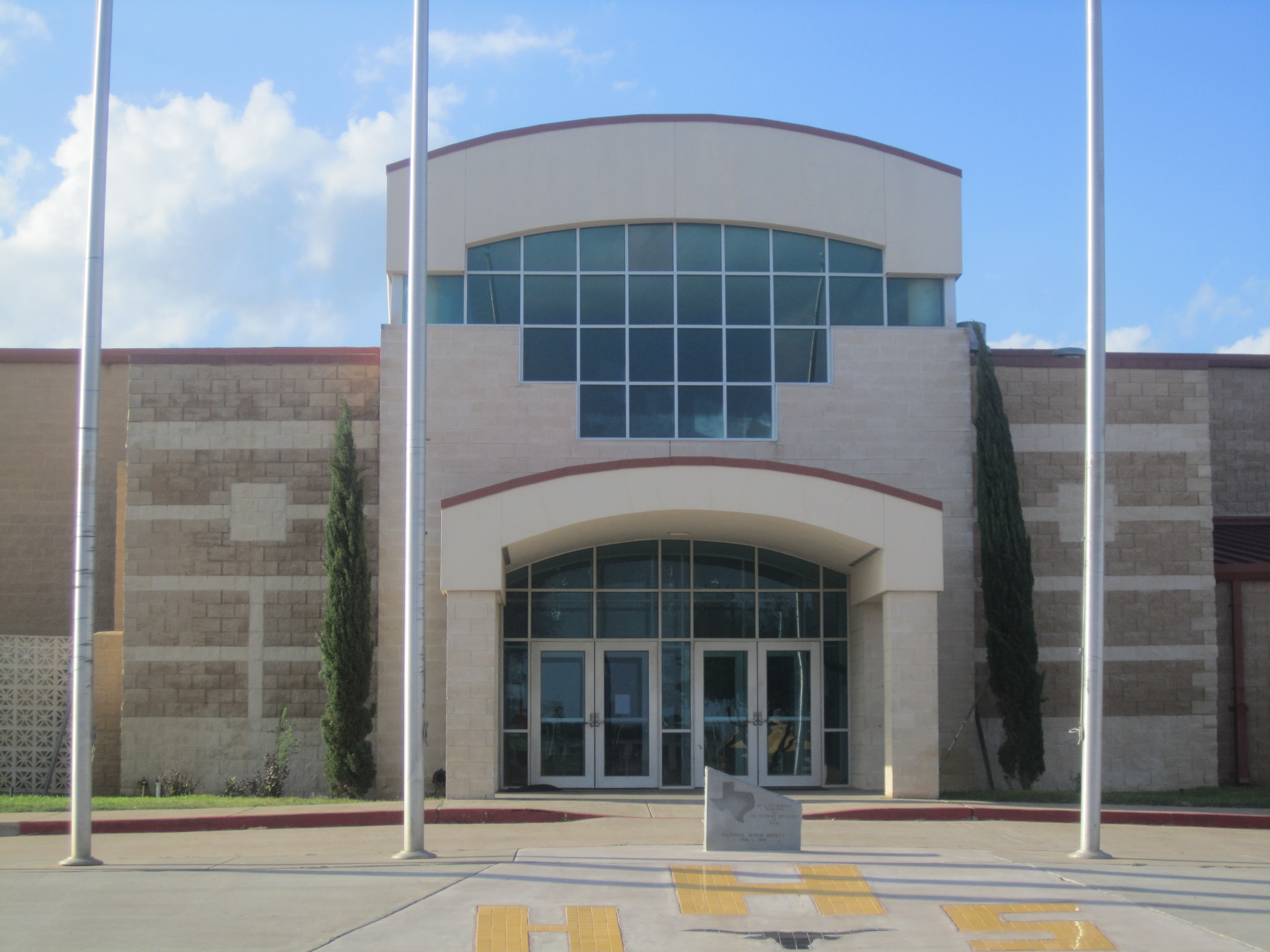 I took photo of Hebbronville, TX, High School with Canon camera.